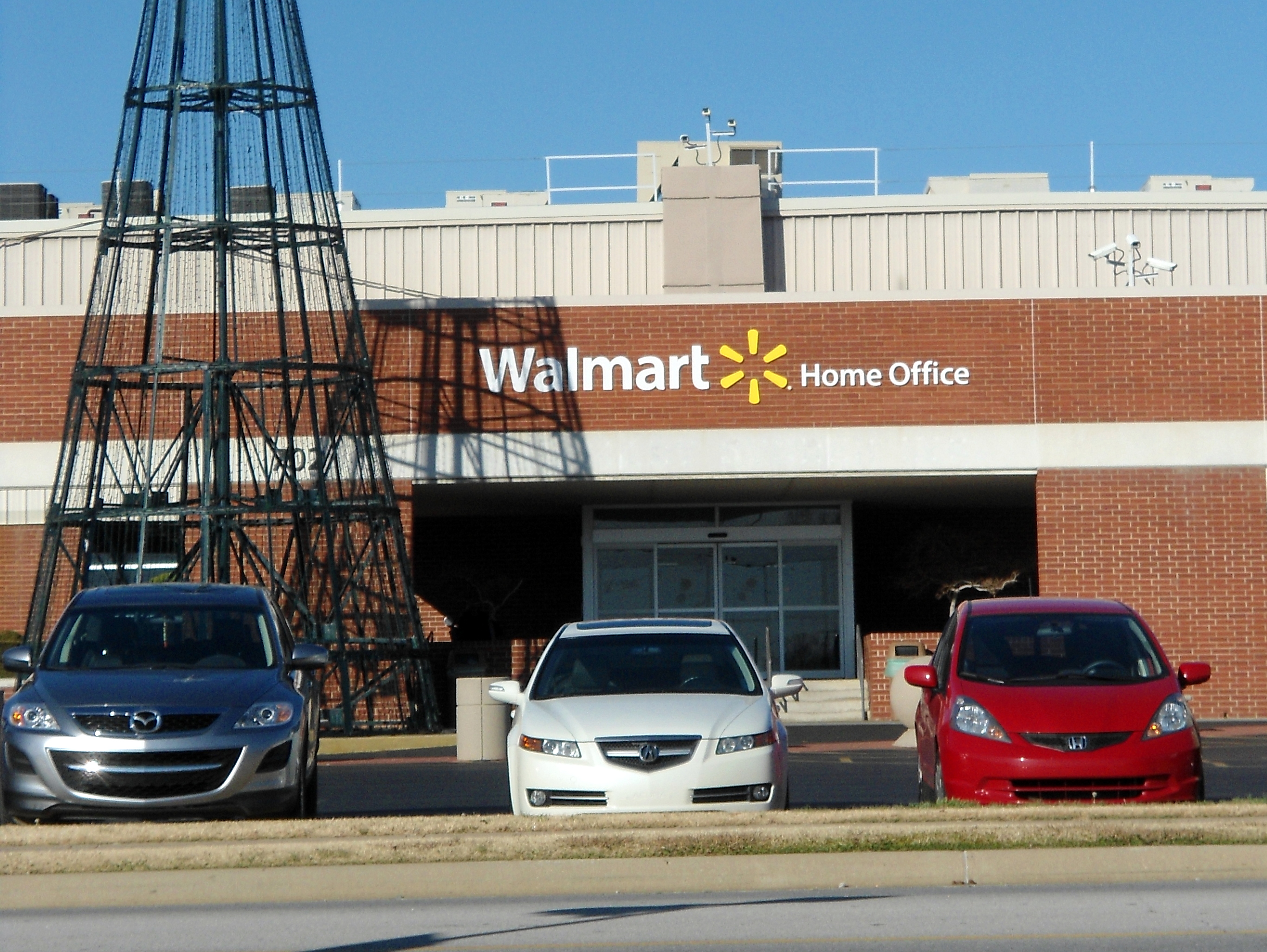 Walmart Home Office in Bentonville, decorated for Christmas